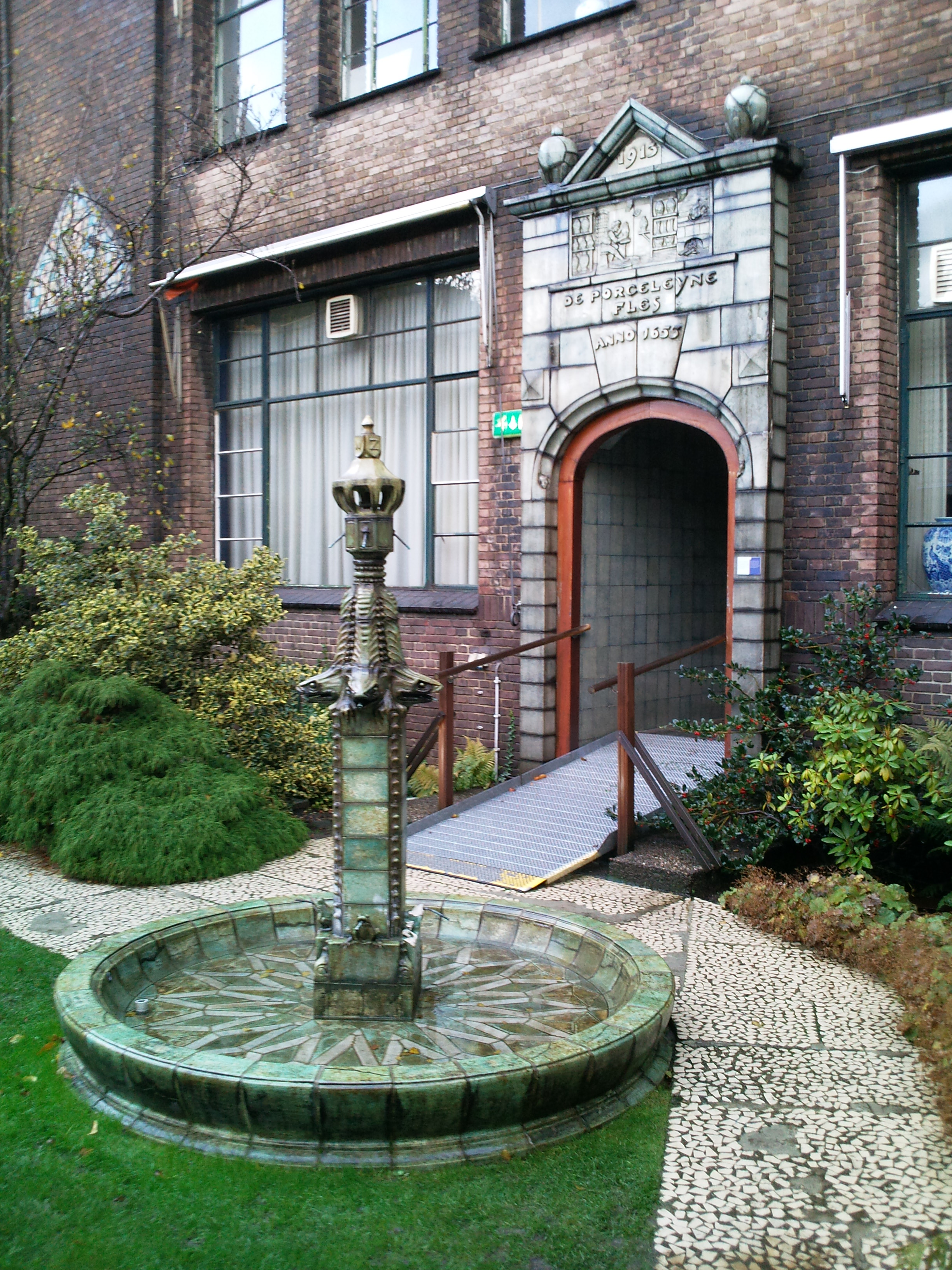 Fontain in the garden of Porceleyne Fles Delft, background entrance to the offices.